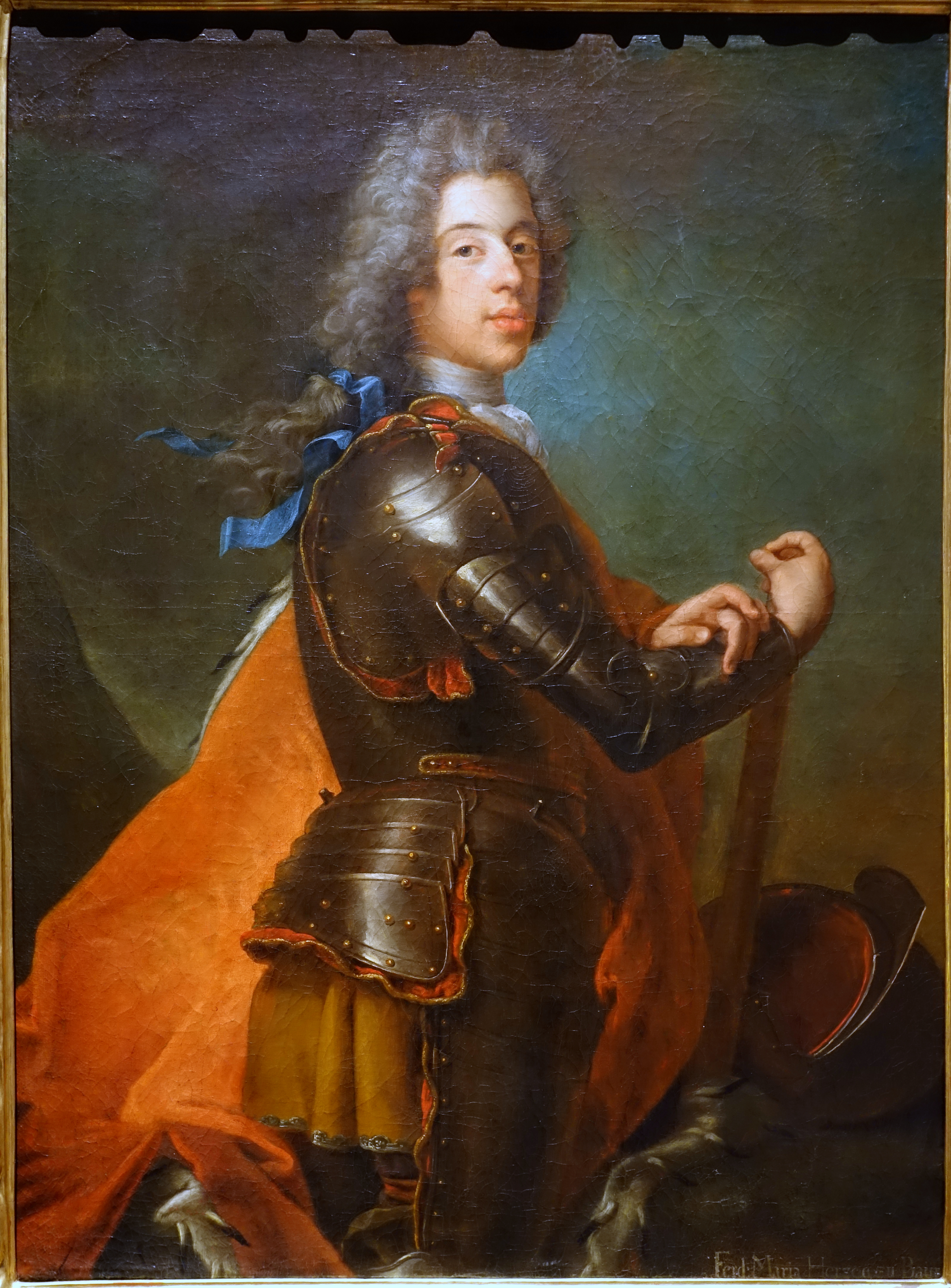 Exhibit in the Hessisches Landesmuseum Darmstadt - Darmstadt, Germany.